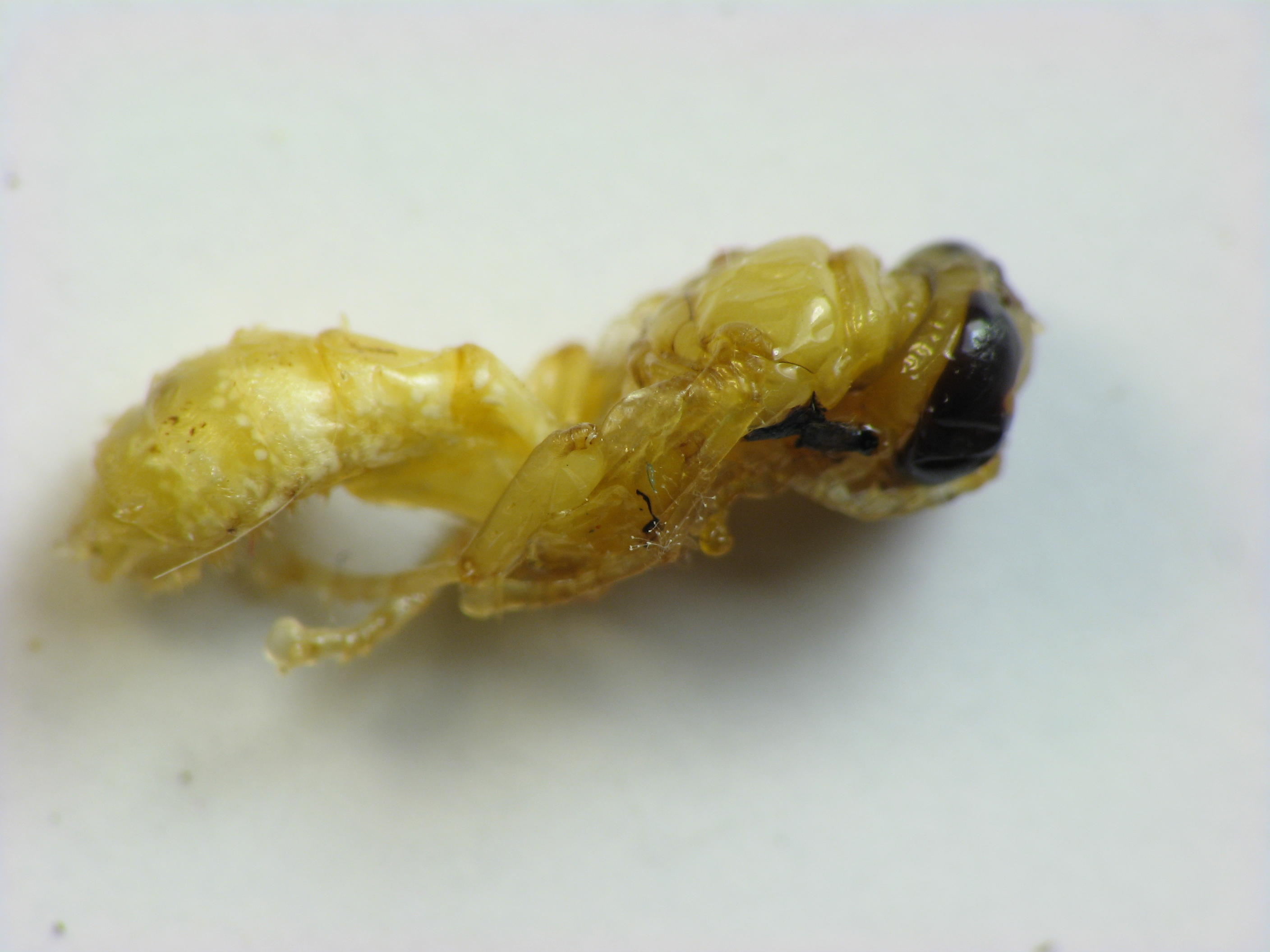 Trypoxylon collinum pupa. Willow Grove, Montgomery County, Pennsylvania, USA June 4, 2010. Size: 10 mm (